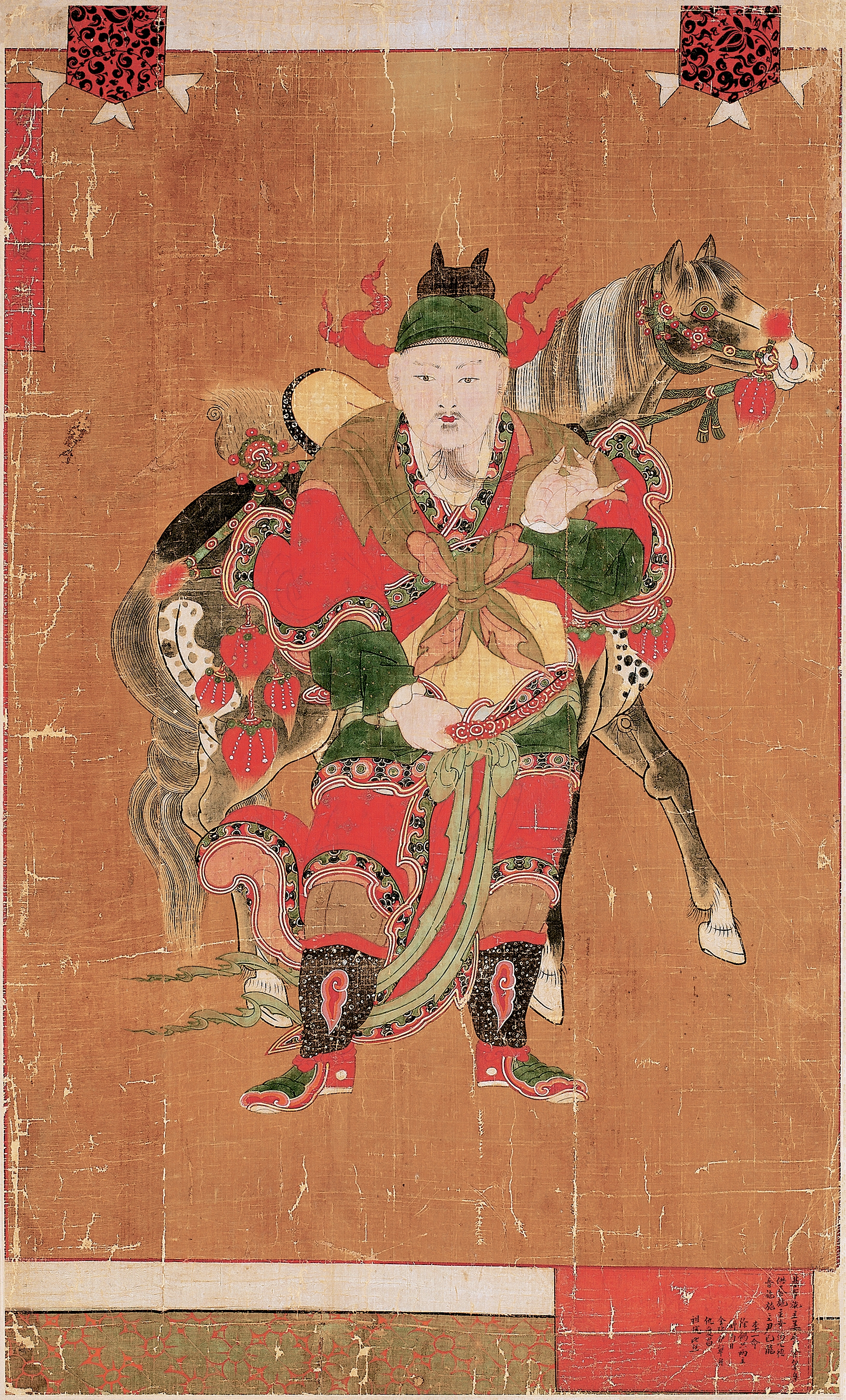 This late Joseon-era Korean painting depicts Jikbu-saja (직부사자/直符使者), a Buddhist divinity who serves Yama, the king of death. This deity visits the houses of the newly dead to take their souls away to the afterlife. It would have been hung in a Buddhist temple's Myeongbu-jeon, a pavilion where the Ten Kings of Naraka (Buddhist purgatory) are worshipped, but is now found in the National Museum of Korea in Seoul.